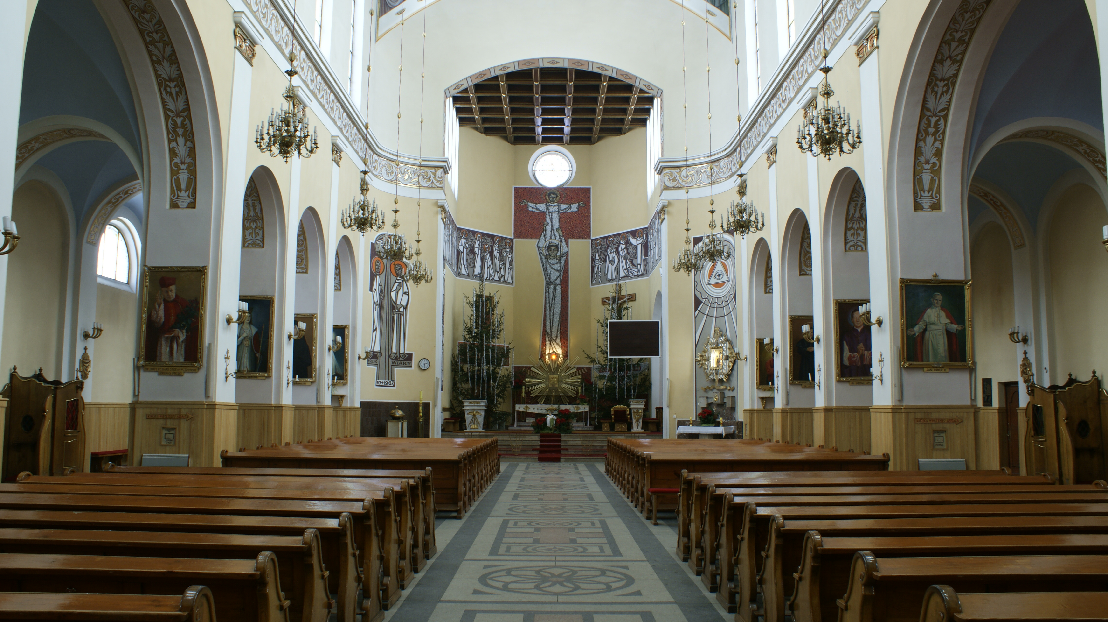 Interior of The st. Anthony church in Ostrow wlkp.